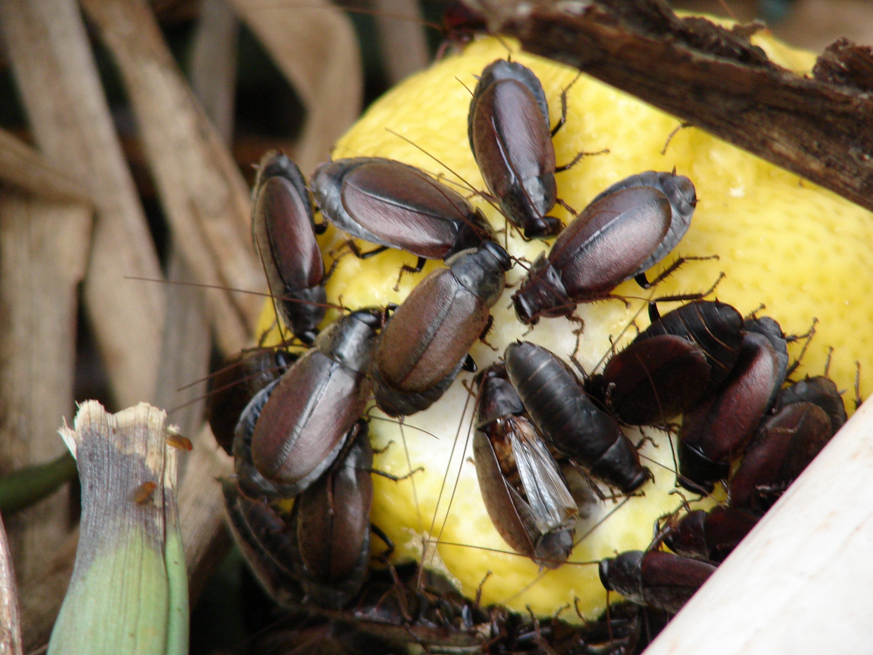 Citrus jambhiri (fruit with cockroaches eating peel). Location: Maui, Makawao